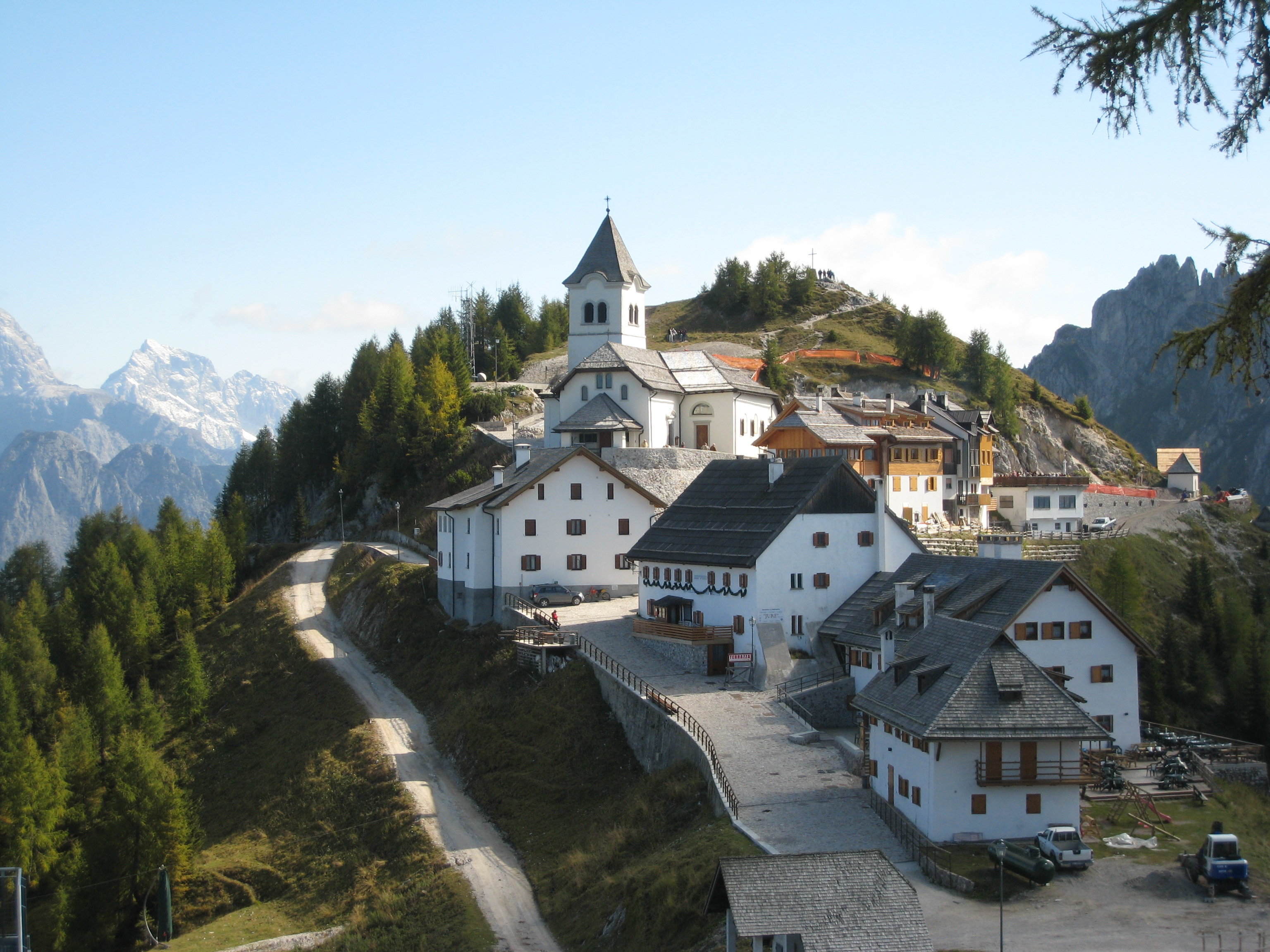 Italia - Tarvisio - Monte Lussari